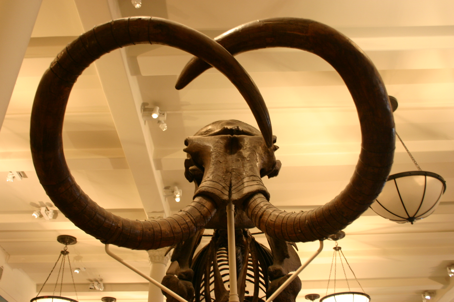 mammoth Visit my blog at